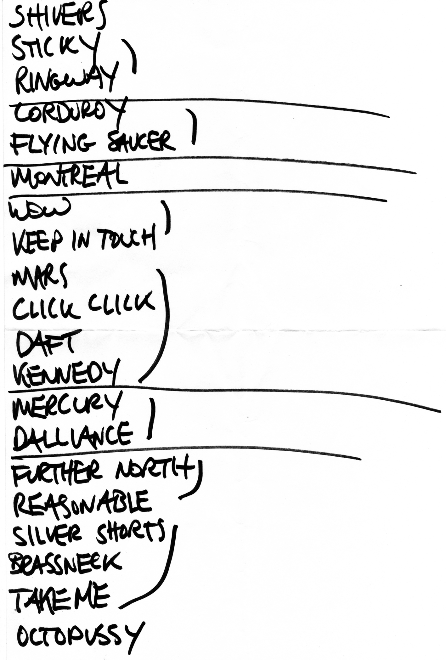 Setlist of a gig (May 24, 2006) by The Wedding Present